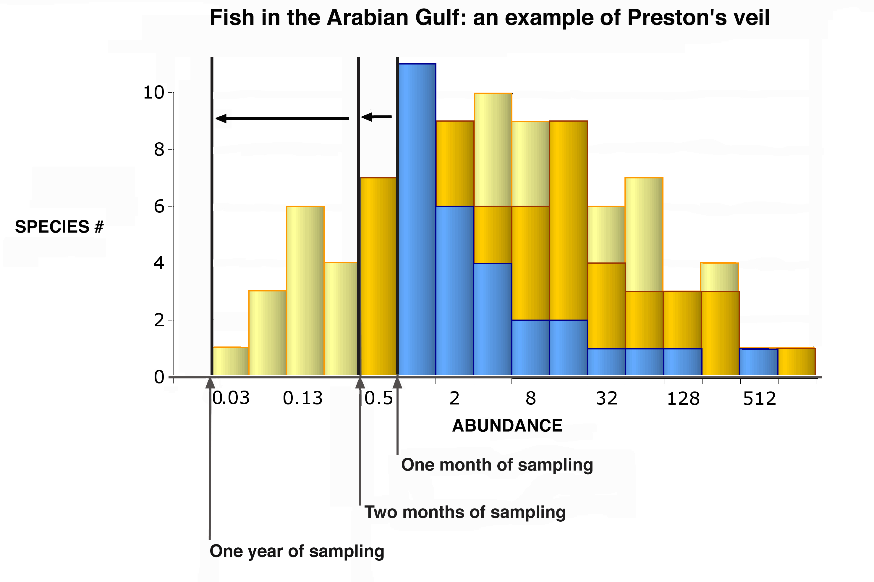 An example of Preston’s veil using fish catch in the Persian Gulf. The graph shows the frequency distribution of species abundances (log2 bins) sampled during repeated trawling over a one month (blue bars), two month (gold bars) and one year period (yellow). The smaller (blue) data set is strongly right skewed, however, as the sample size increases more rare species are sampled and Preston’s veil line (indicated in black) is pushed further to the left. One year of sampling (yellow bars) indicate that the fish community is in fact log-normally distributed (modified from Magurran 1988 and 2004).